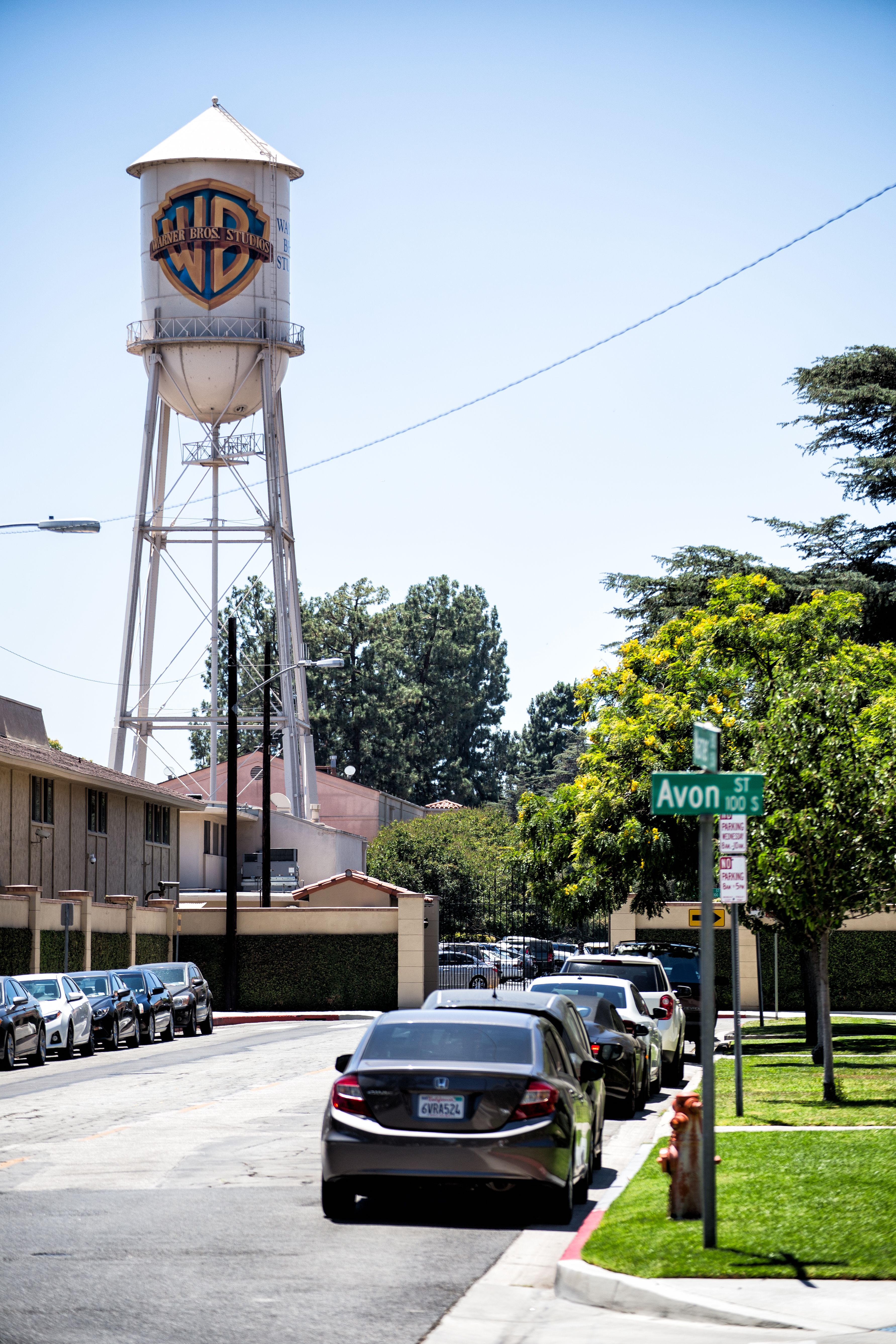 The water tower at Warner Bros, Burbank.